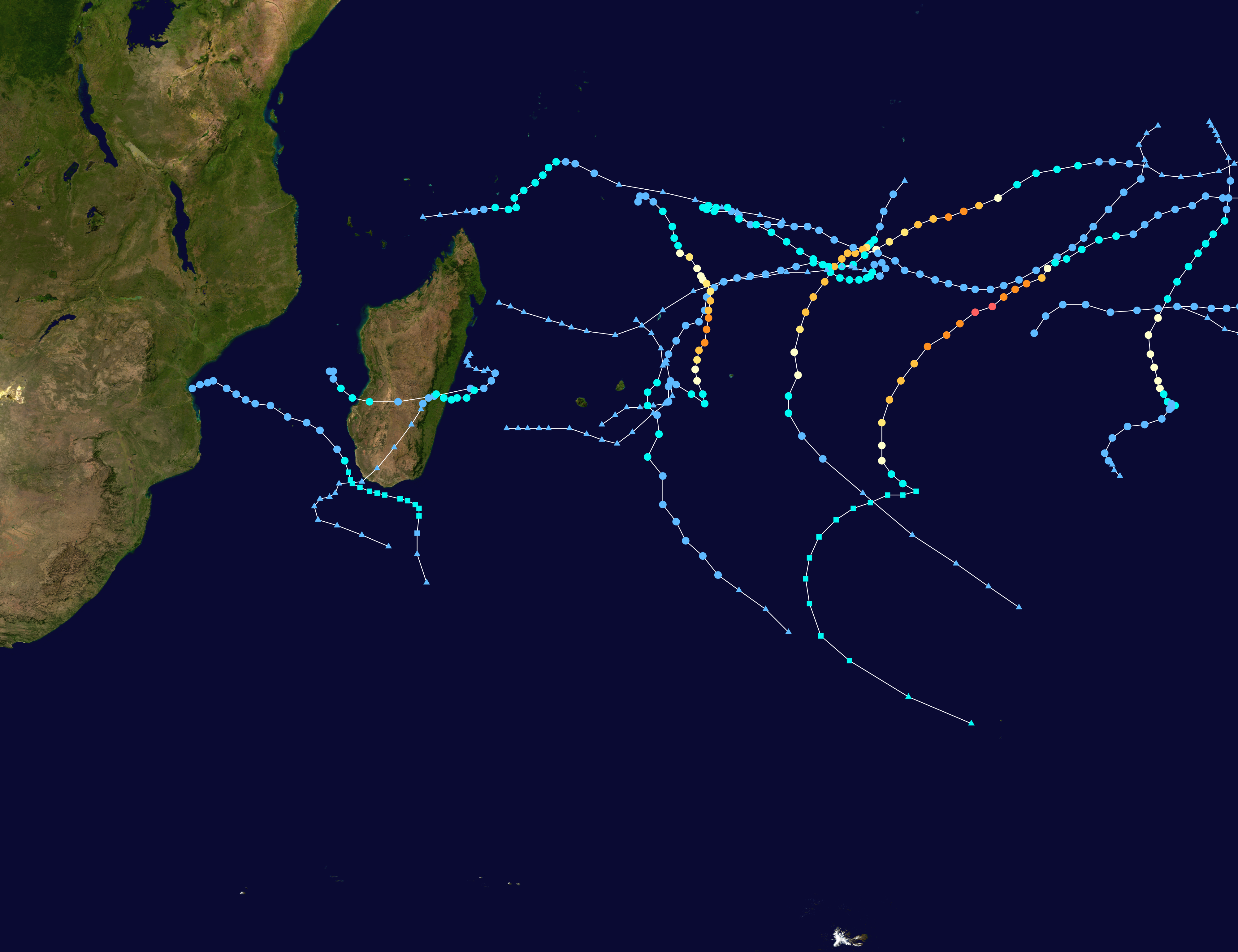 This map shows the tracks of all tropical cyclones in the 2009-10 South-West Indian Ocean cyclone season. The points show the location of each storm at 6-hour intervals. The colour represents the storm's maximum sustained wind speeds as classified in the Saffir-Simpson Hurricane Scale (see below), and the shape of the data points represent the type of the storm. Saffir–Simpson scale Tropical depression≤38 mph≤62 km/h Category 3111–129 mph178–208 km/h Tropical storm39–73 mph63–118 km/h Category 4130–156 mph209–251 km/h Category 174–95 mph119–153 km/h Category 5≥157 mph≥252 km/h Category 296–110 mph154–177 km/h Unknown Storm type Tropical cyclone Subtropical cyclone Extratropical cyclone / Remnant low / Tropical disturbance / Monsoon depression